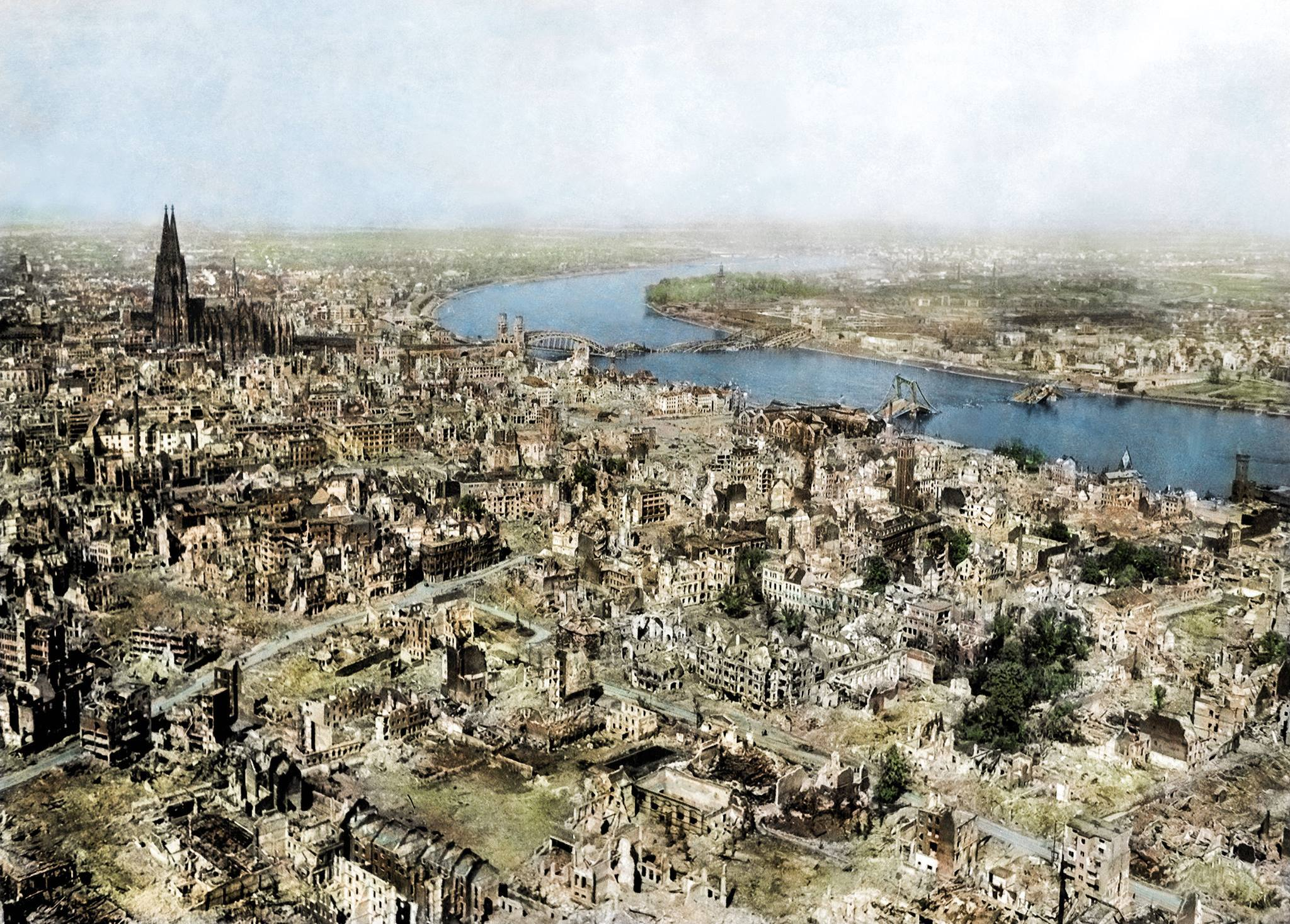 The Kölner Dom (Cologne Cathedral) stands seemingly undamaged (although having been directly hit several times and damaged severely) while entire area surrounding it is completely devastated. The Hauptbahnhof (Köln Central Station) and Hohenzollern Bridge lie damaged to the north and east of the cathedral. Germany, 24 April 1945.